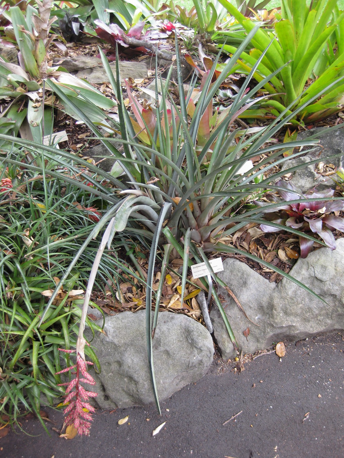 Photographed at the Royal Botanic Gardens Sydney (Australia) in January